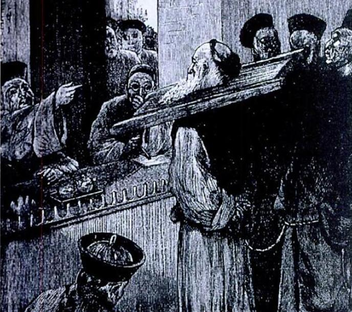 François-Régis Clet (b. 1748 - d.1820), French missionary in China, during his judgement, in 1820.